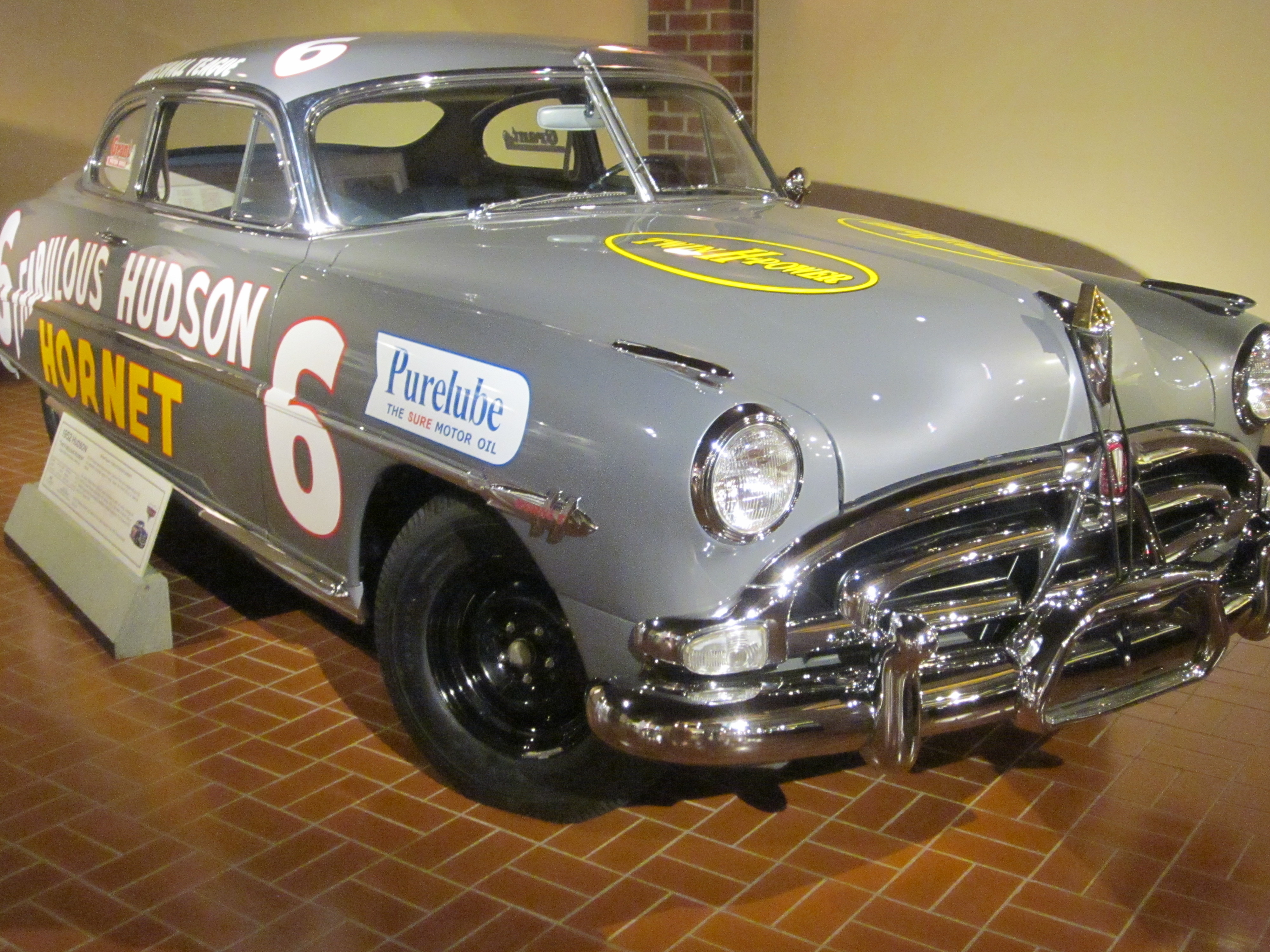 1952 Hudson Hornet #6 race car housed in the Hostetler collection at the Gilmore Car Museum, Michigan